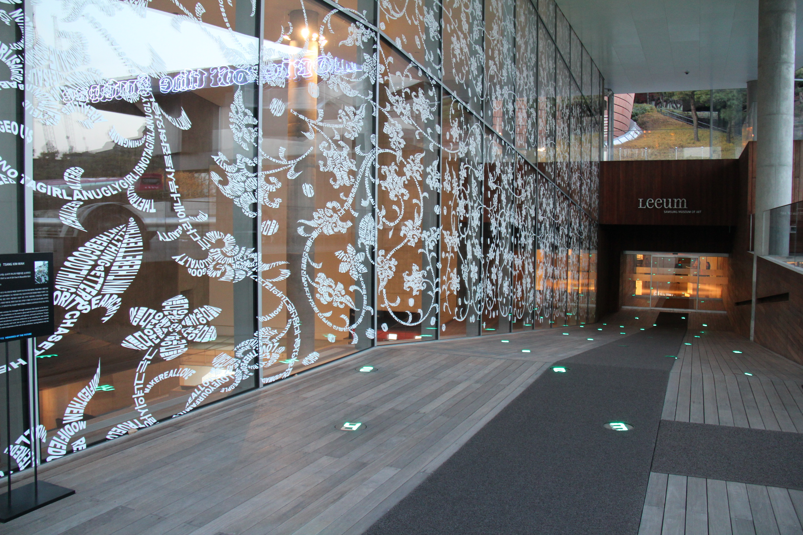 Hannam-dong has long been considered one of the best residential areas in Seoul, conveniently located at the heart of the city, flanked by Mt. Namsan and the Han River. Located near Itaewon, a well-known and ethnically diverse area, Hannam-dong has remained primarily a foreign residential area, while preserving its unique and cozy atmosphere.